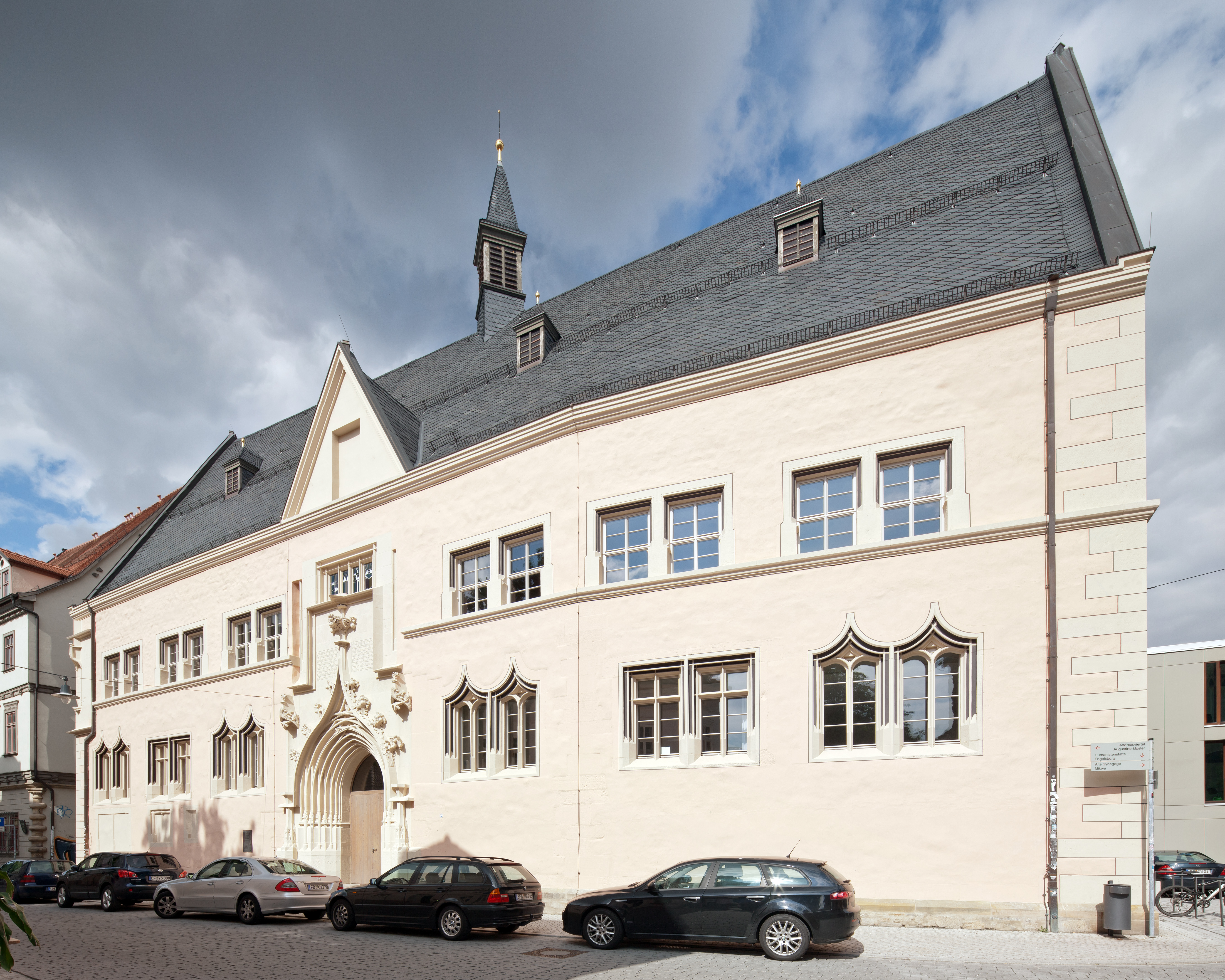 Erfurt: Collegium Maius as seen from the southeast